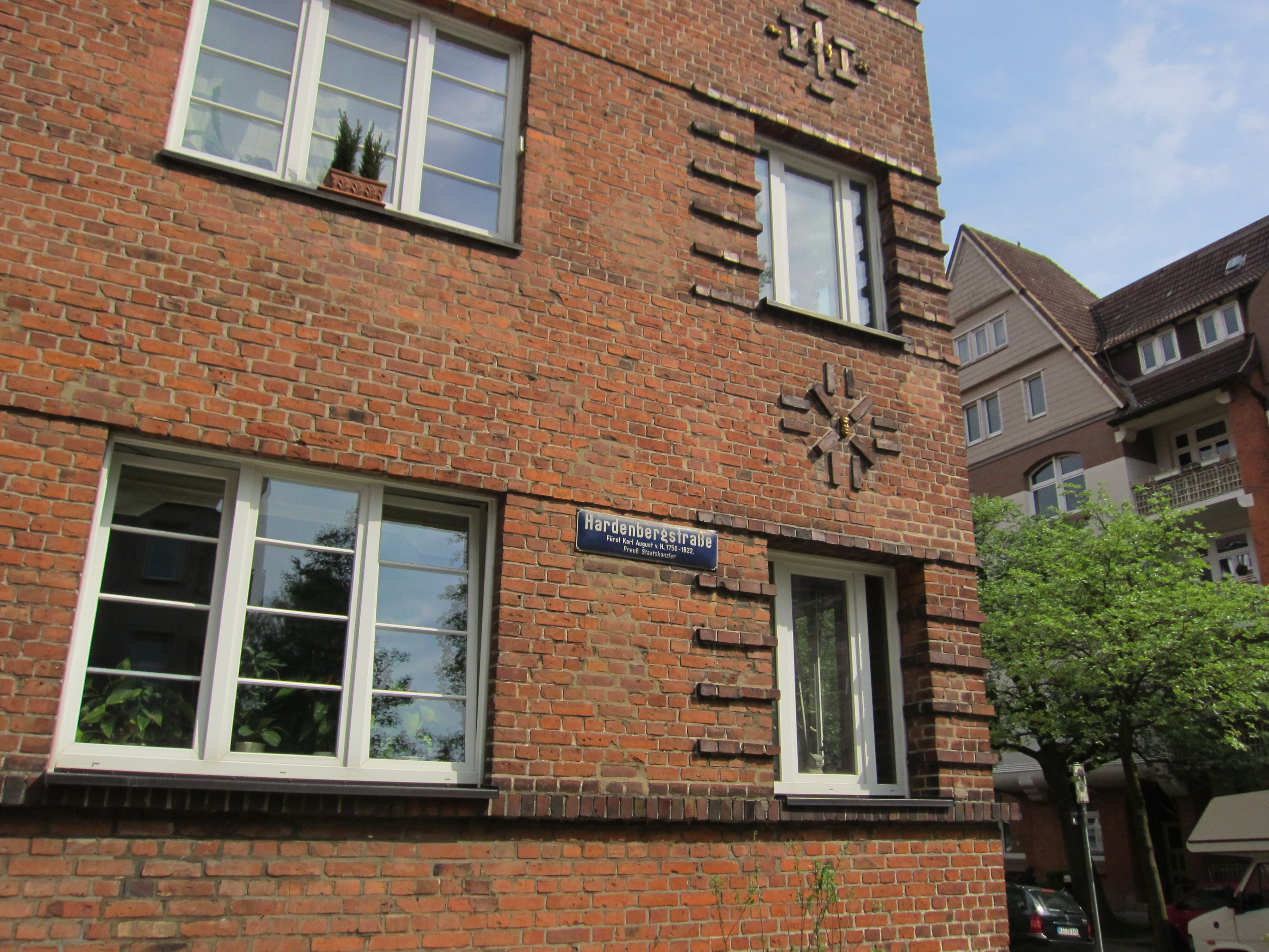 Street sign "Hardenbergstraße" in Kiel-Marineviertel